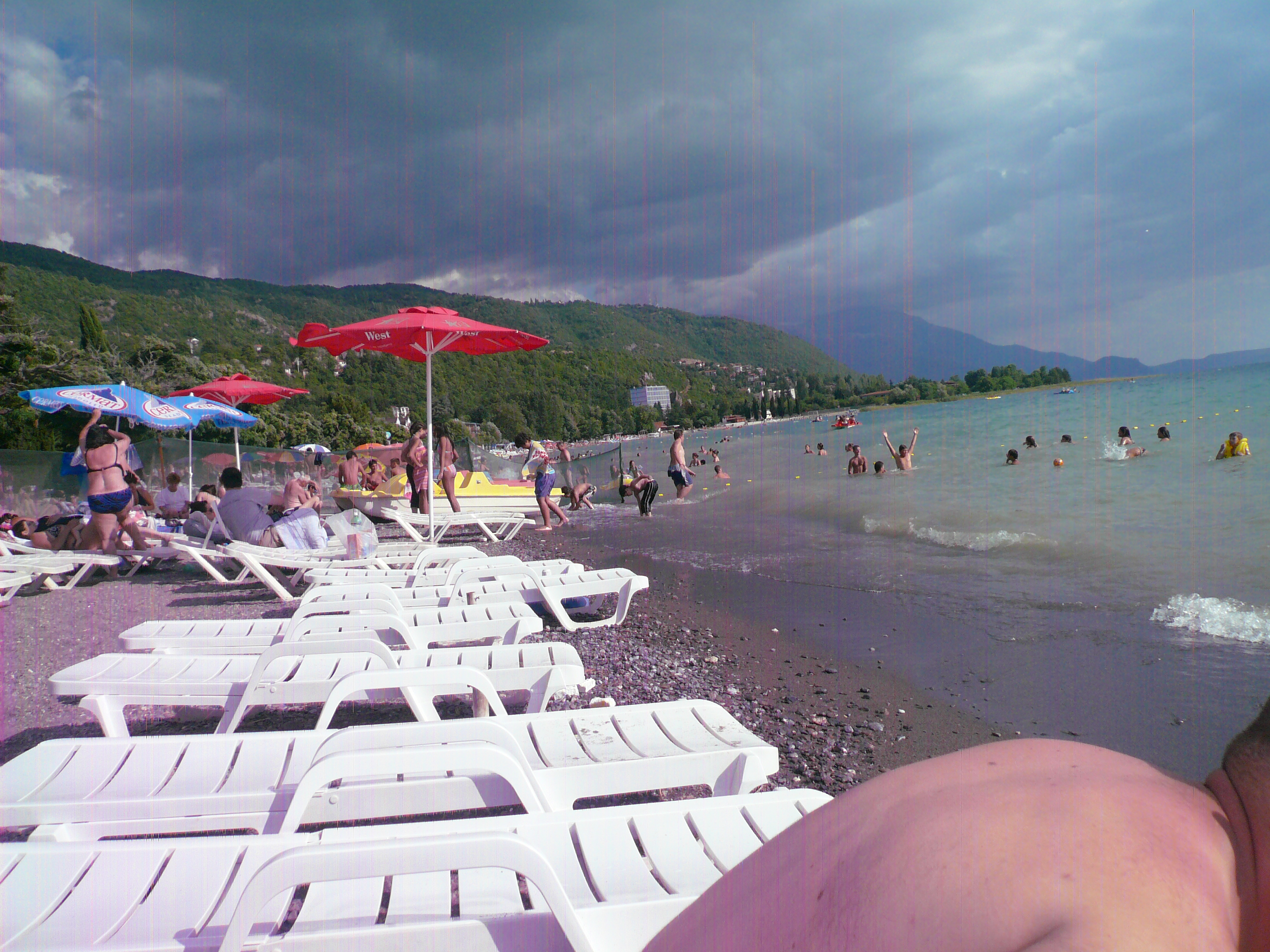 Odrid, Macedinia in July 2007